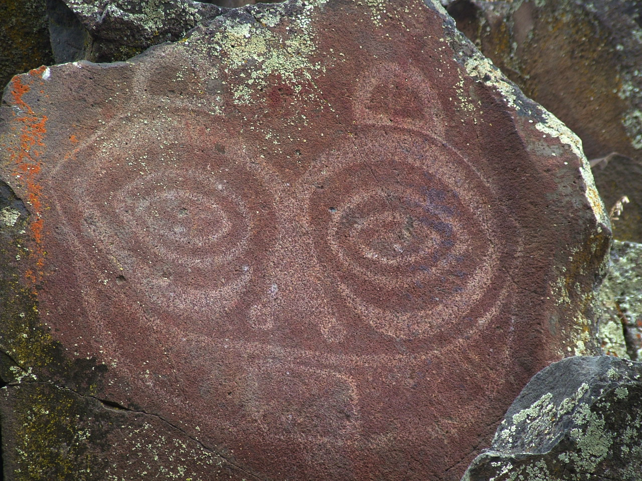 Tsagaglalal (She Who Watches) looks down on the Columbia River from the basalt cliffs which she is a part of. Put there by Coyote to look after her people at Her own request, She is there still. She Who Watches is part of the ancient Columbia River Legends, which are some 10,000 years old. The bullet holes are vandalism from the late 1800's when a traveler in a passing train shot at She Who Watches as target practice.